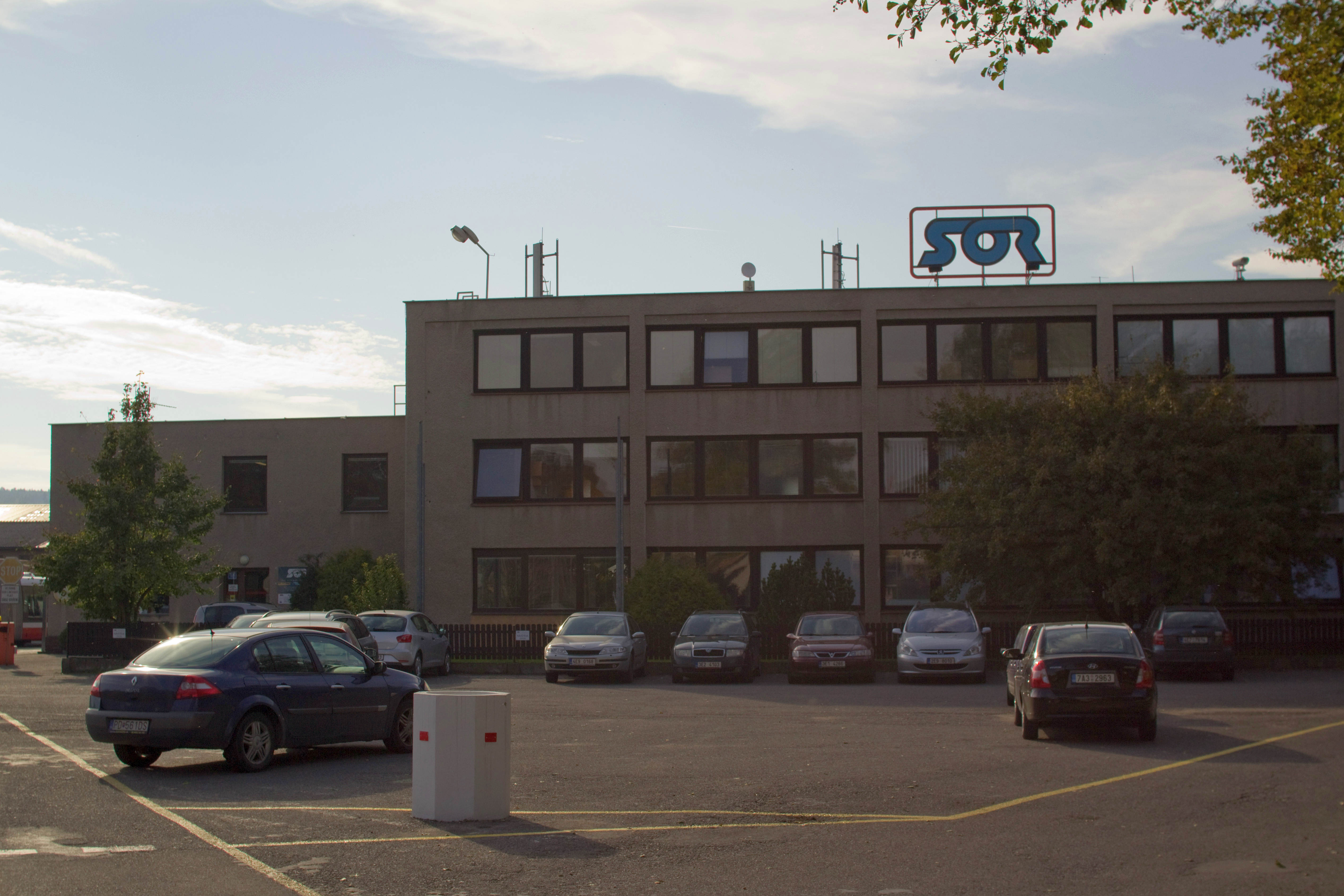 SOR Libchavy, Dolní Libchavy, Ústí nad Orlicí District, Pardubice Region